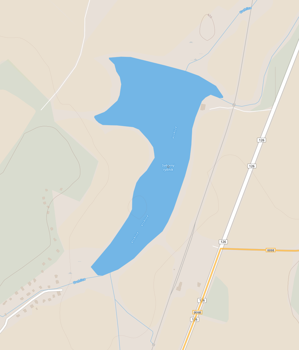 Svěcený Pond 1. Schema. Kutná Hora District, the Czech Republic.